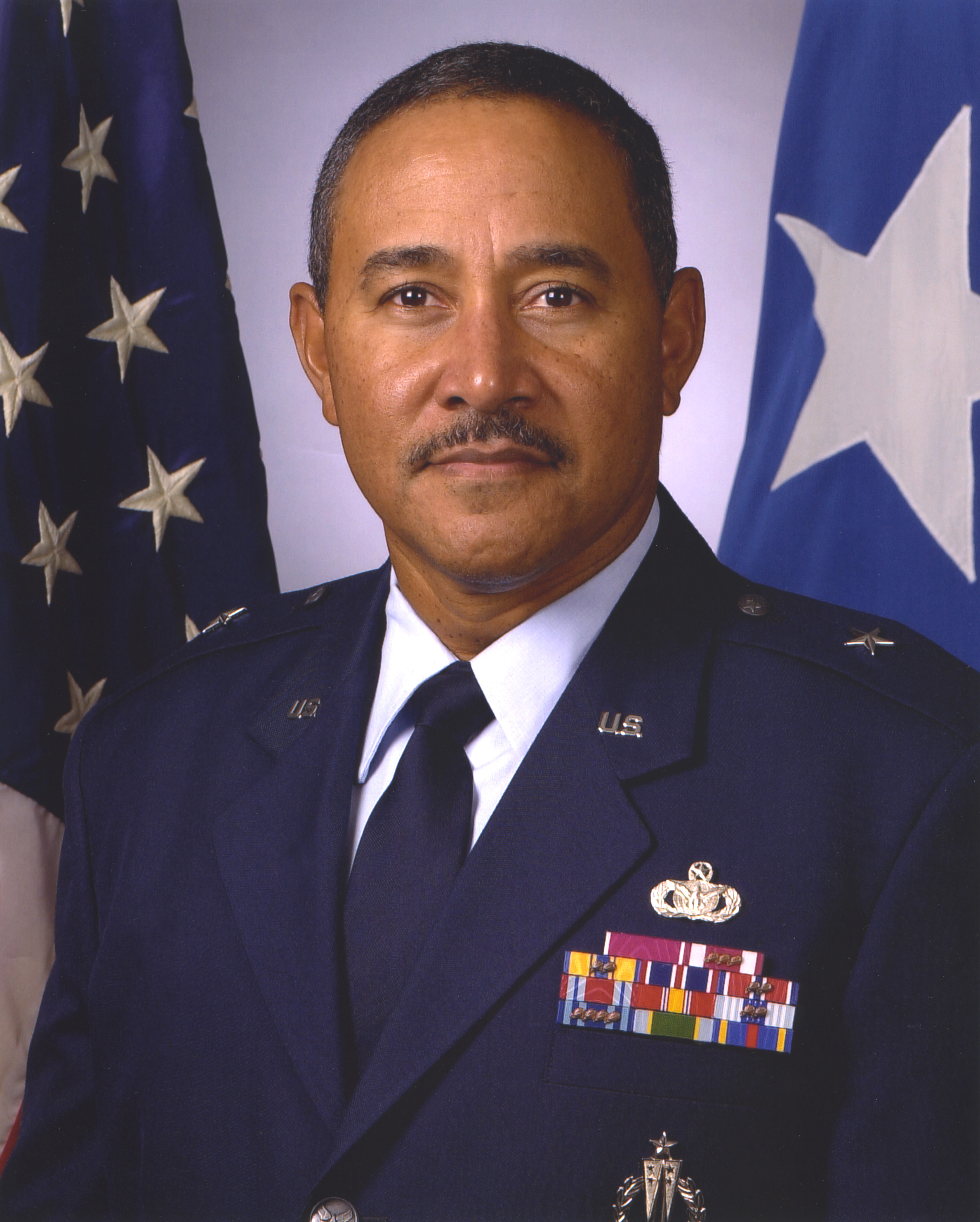 Brigadier General L. Eric Patterson